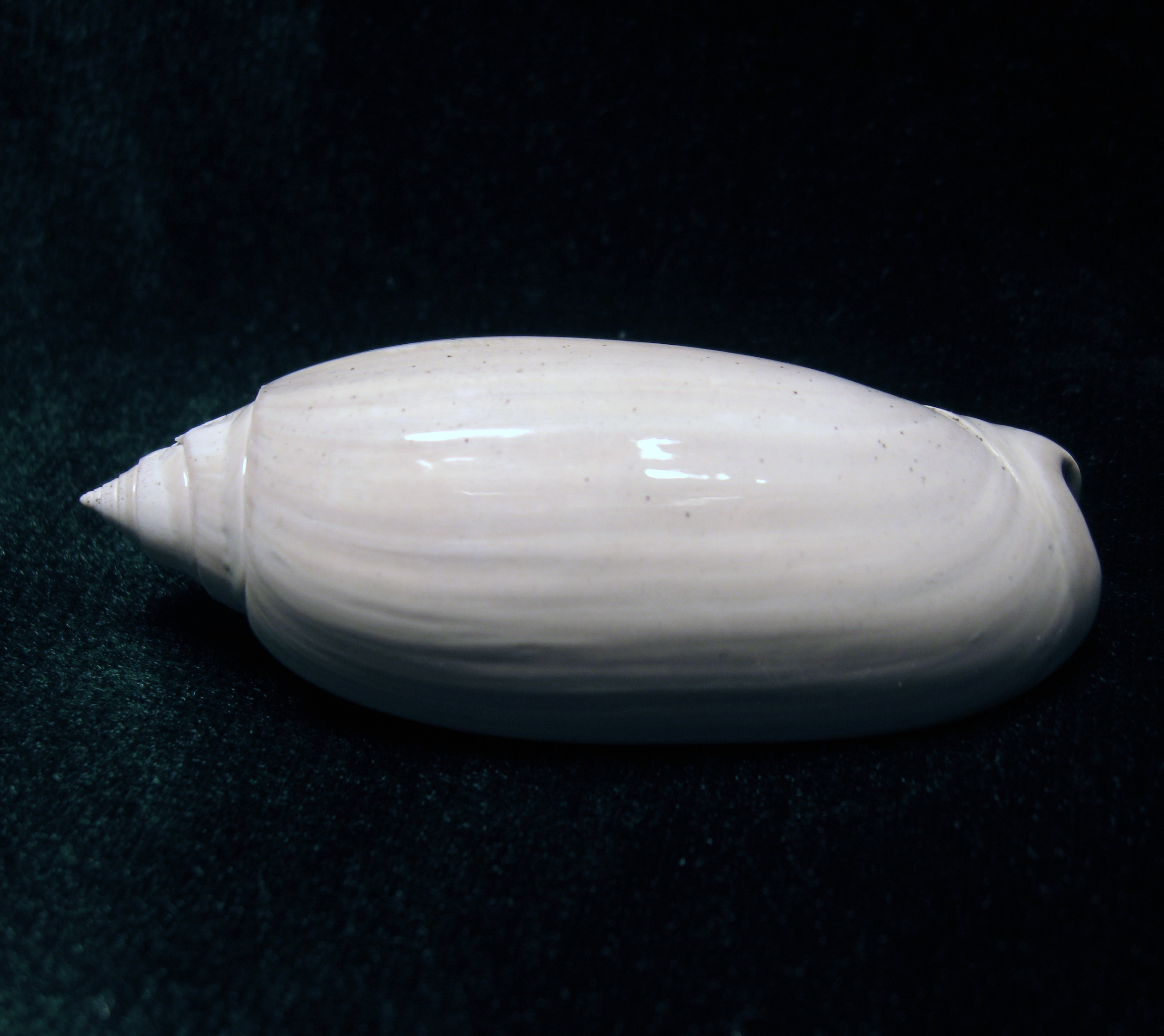 A fossil Oliva reticularis Lemarck shell ~6.3cm long. Lower Pliocene (~3.7 million years old); Tulane University locality #1000, Pinecrest Beds, Tamiami Formation; Sarasota, Florida, USA; Stonerose Interpretive Center, Joe Turon shell collection, #SR 02-274